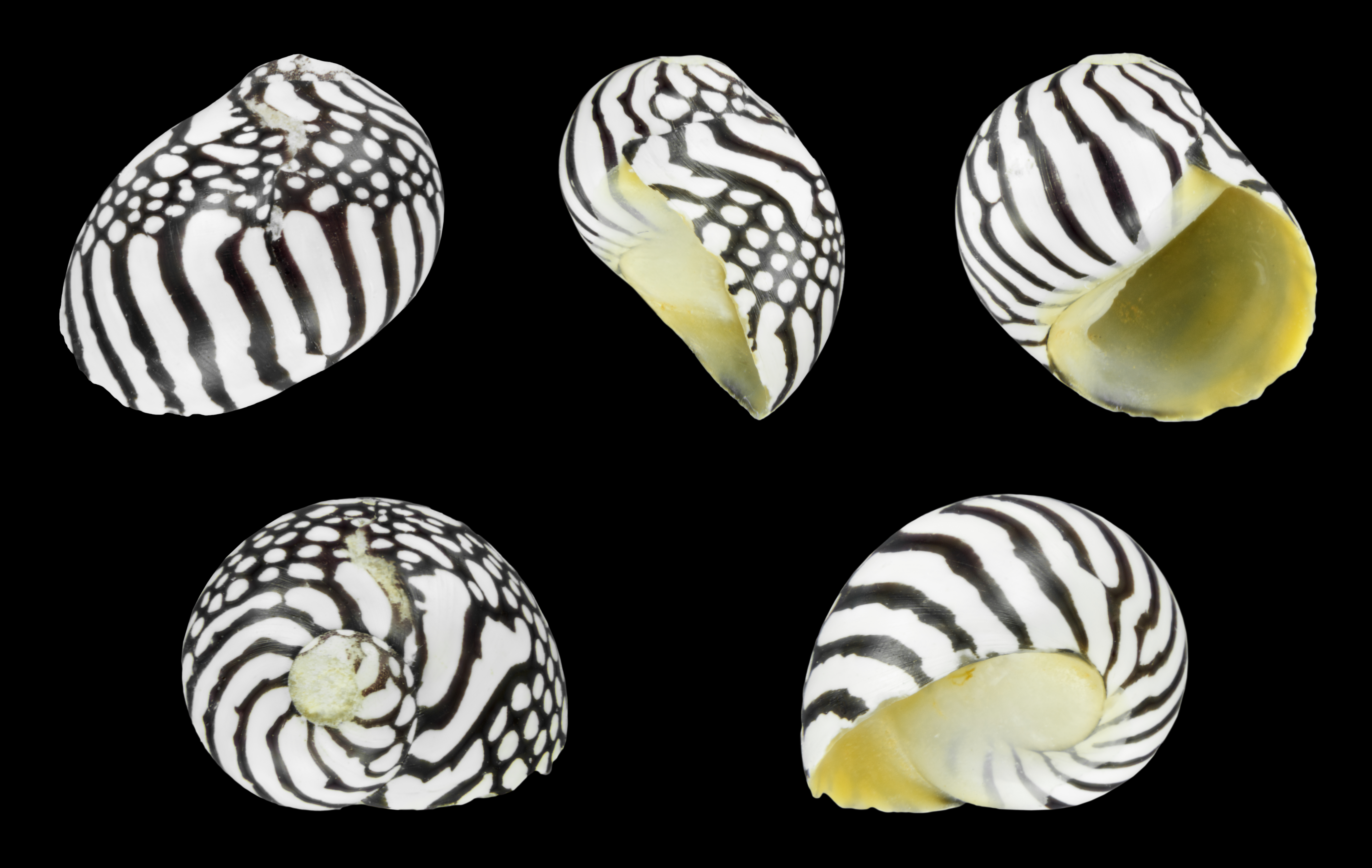 Puperita pupa (Linné, 1758), Zebra Nerite, showing the two possible colour patterns: spots and stripes; Height 0.8 cm; Originating from Dominican Republic; Shell of own collection, therefore not geocoded.